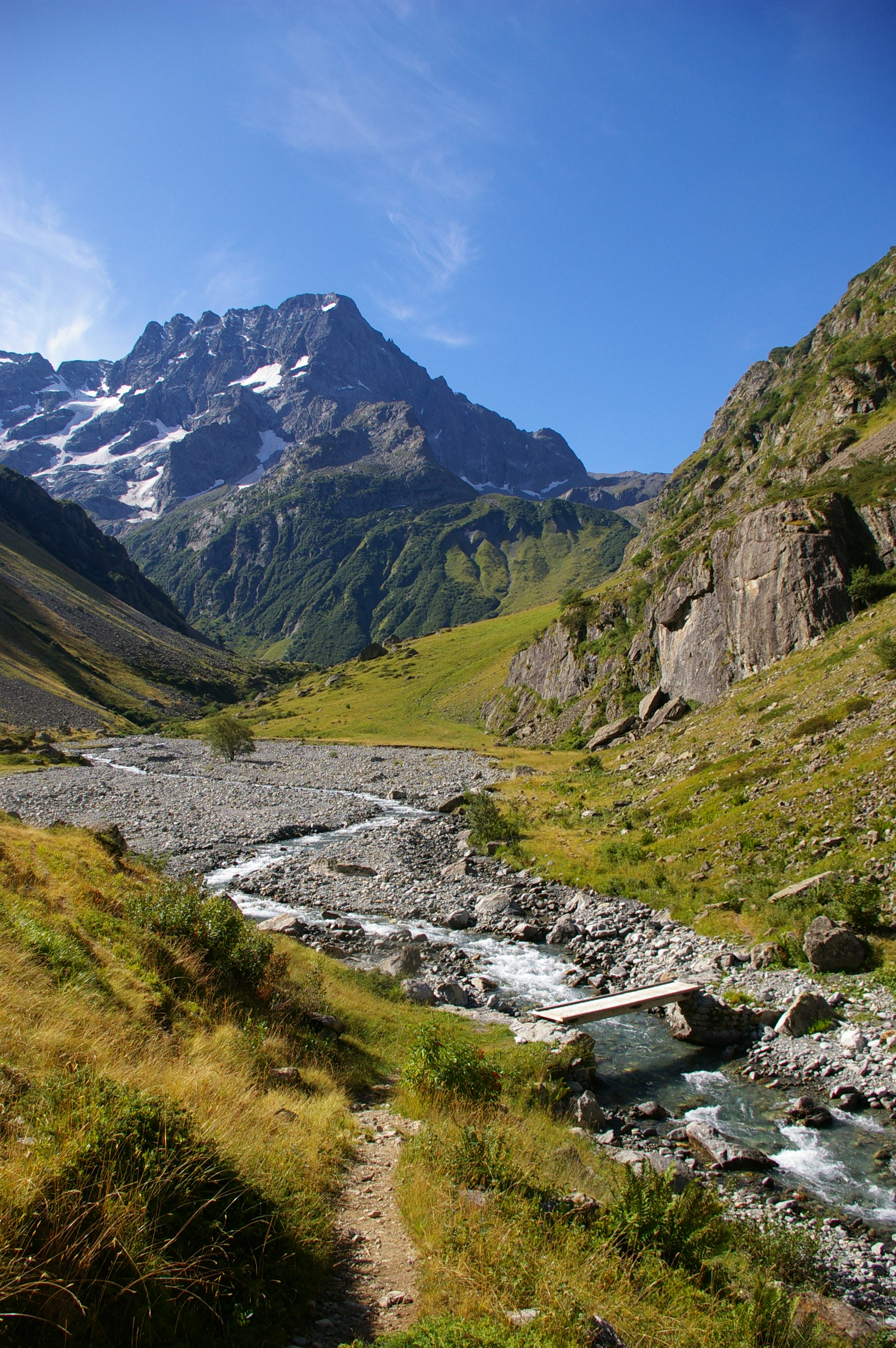 In the Valgaudemar on the route to the Refuge de Vallonpierre, looking South. Geodata is approximate as I can't remember where exactly this picture was taken.